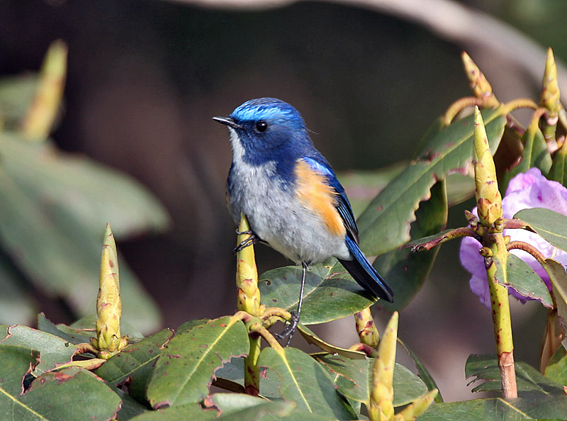 Himalayan Bluetail Tarsiger rufilatus in Kullu District of Himachal Pradesh, India.